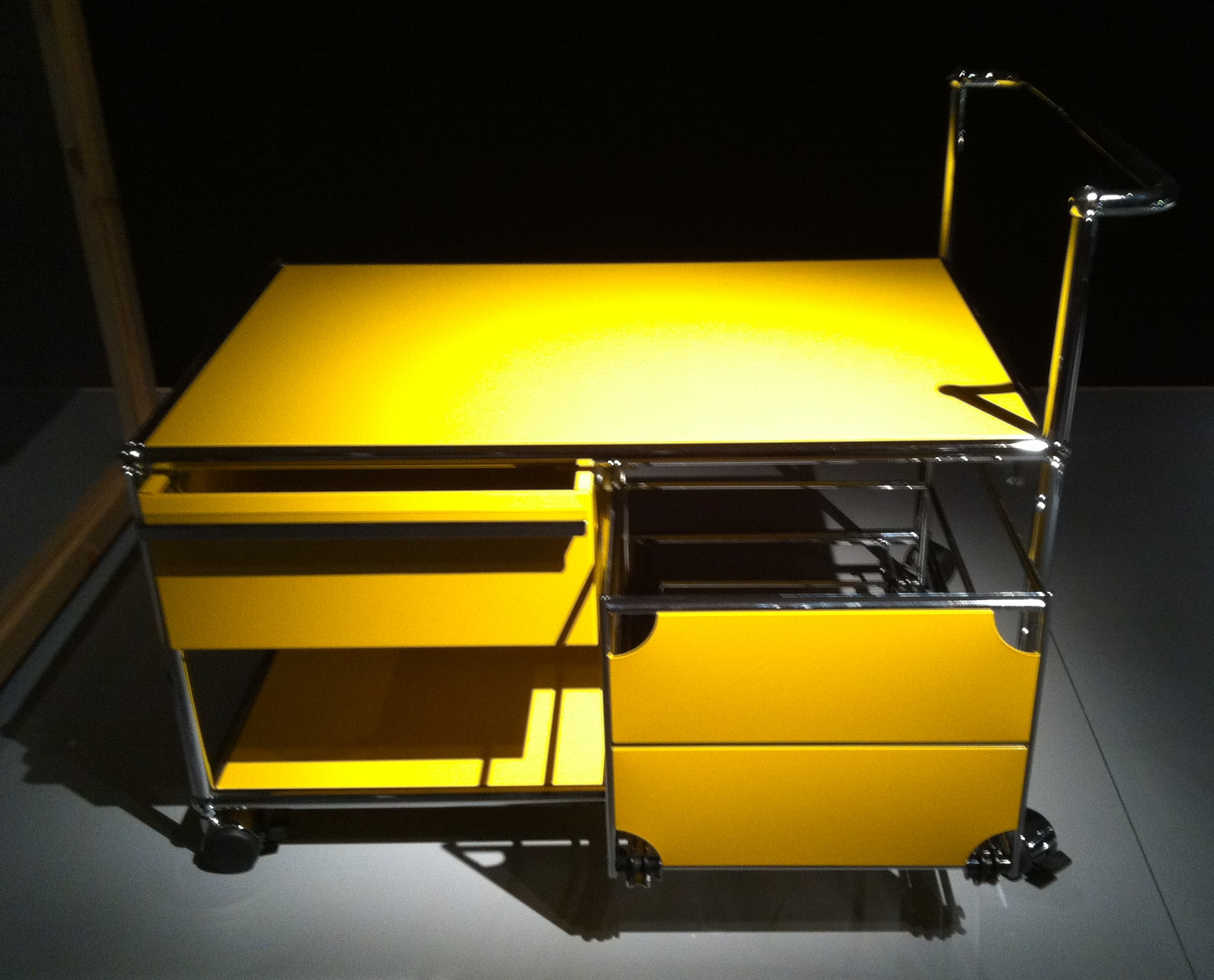 Systems design- The Ulm school. Exhibit at Disseny Hub Barcelona- DHUB Paul Schärer and Fritz Haller-Furniture sistem